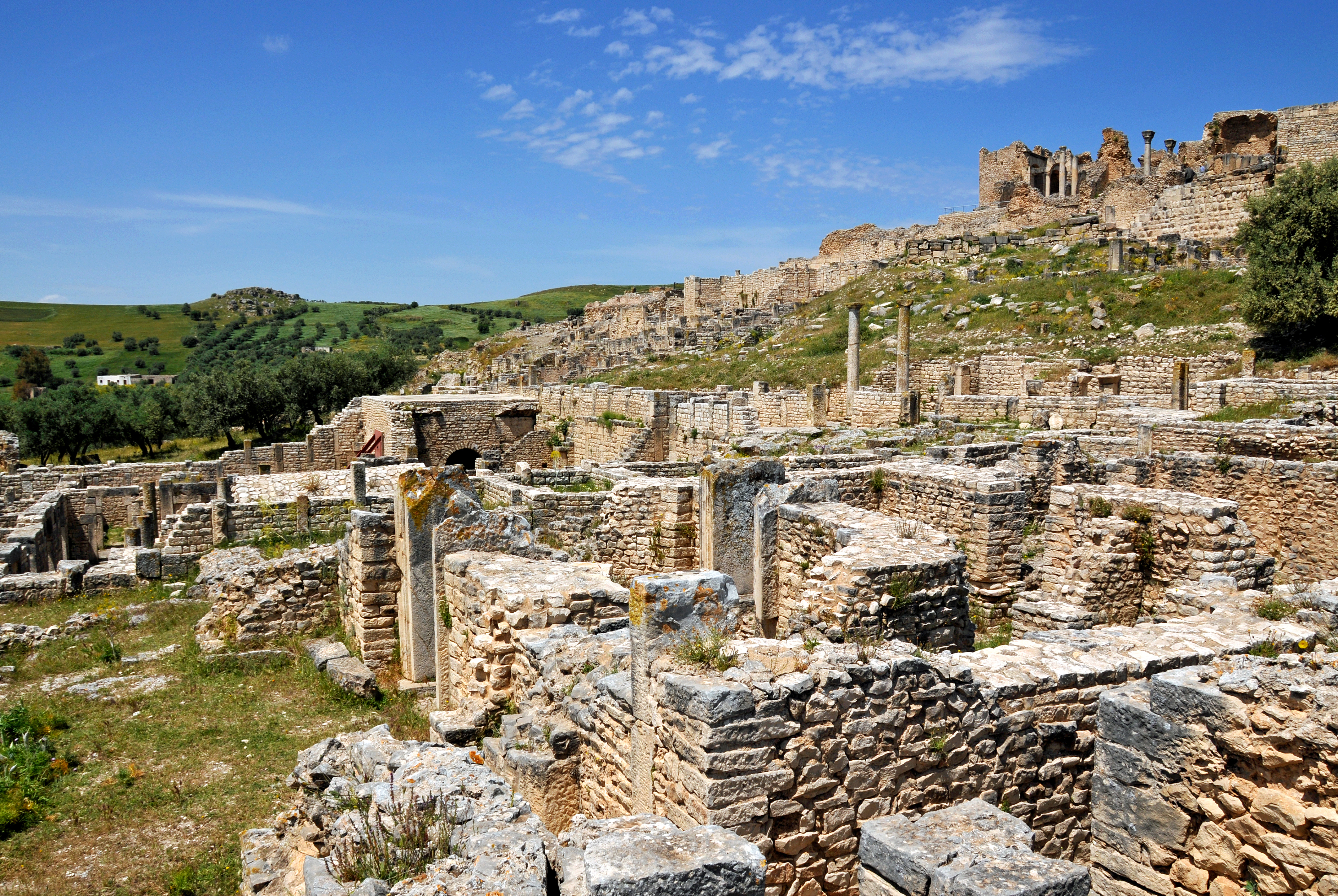 The Baths of the Cyclopes in Dougga is located adjacent to the House of the Trifolium (Brothel). It is a complex of buildings with arched rooms in the basement. The bathrooms are located in the south side of the complex.